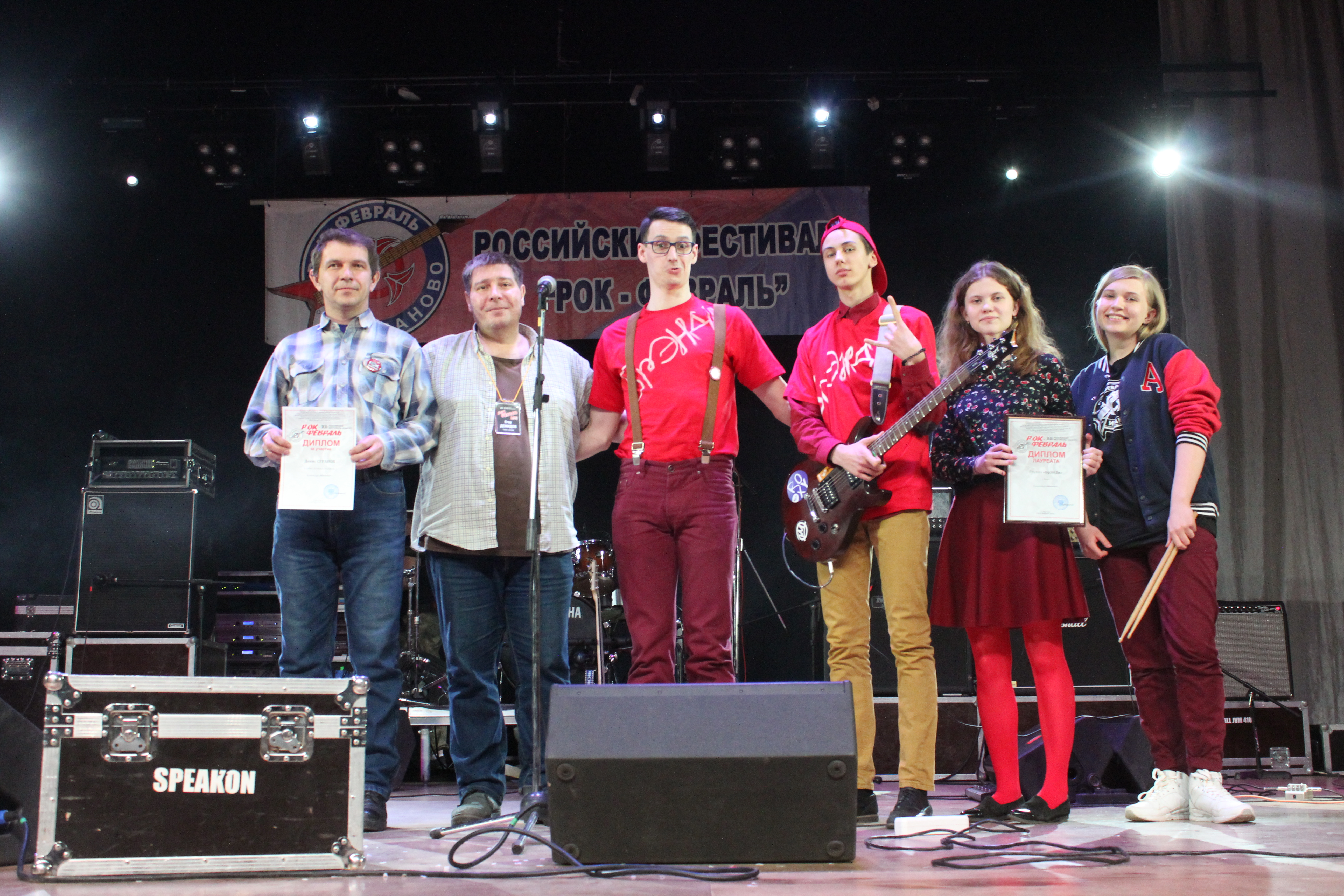 Участники фестиваля из Калуги, 2018.